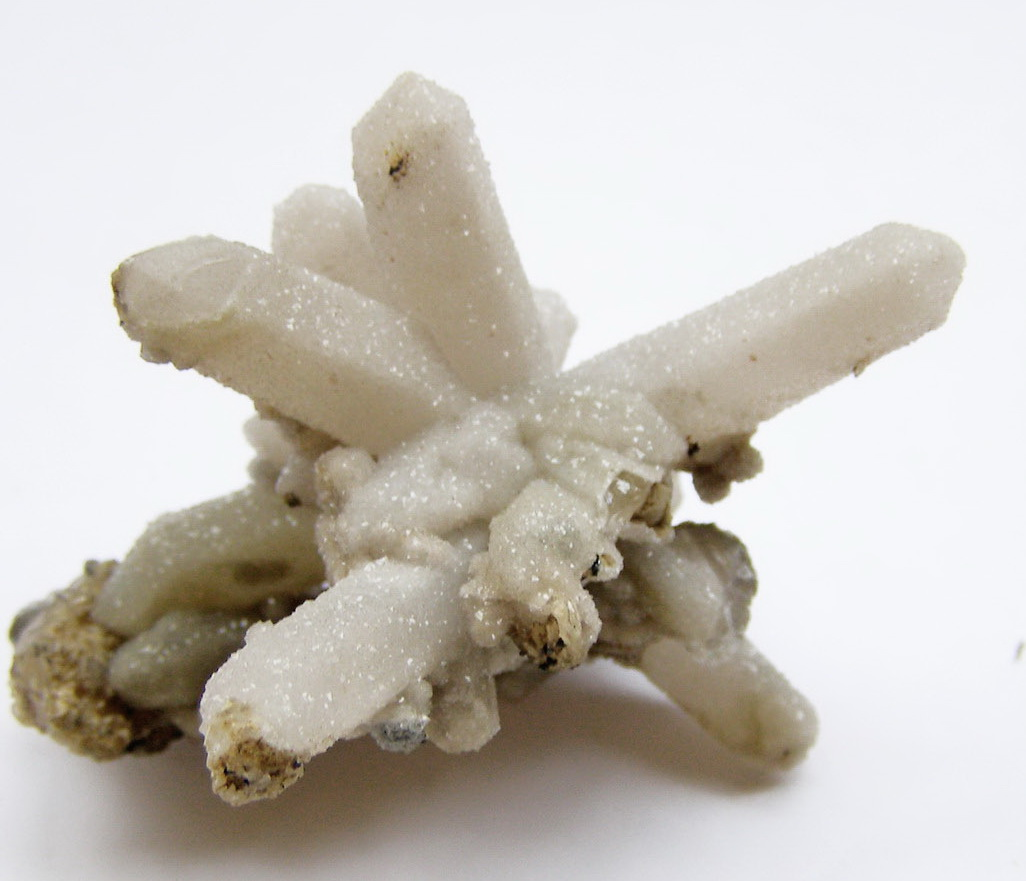 A druse of quartz crystals covered with secondary calcite growth.